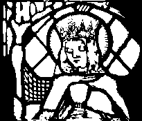 Drawing of a Stain glass window in a church depicting Edburgah of Winchester.